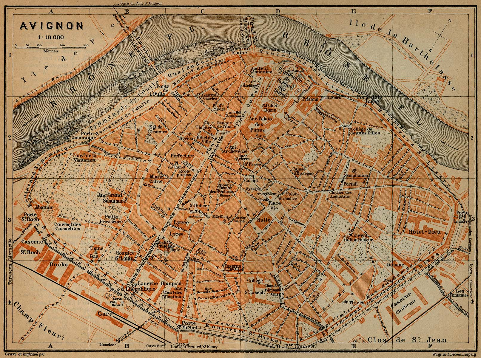 Map of France. 1914. Avignon.